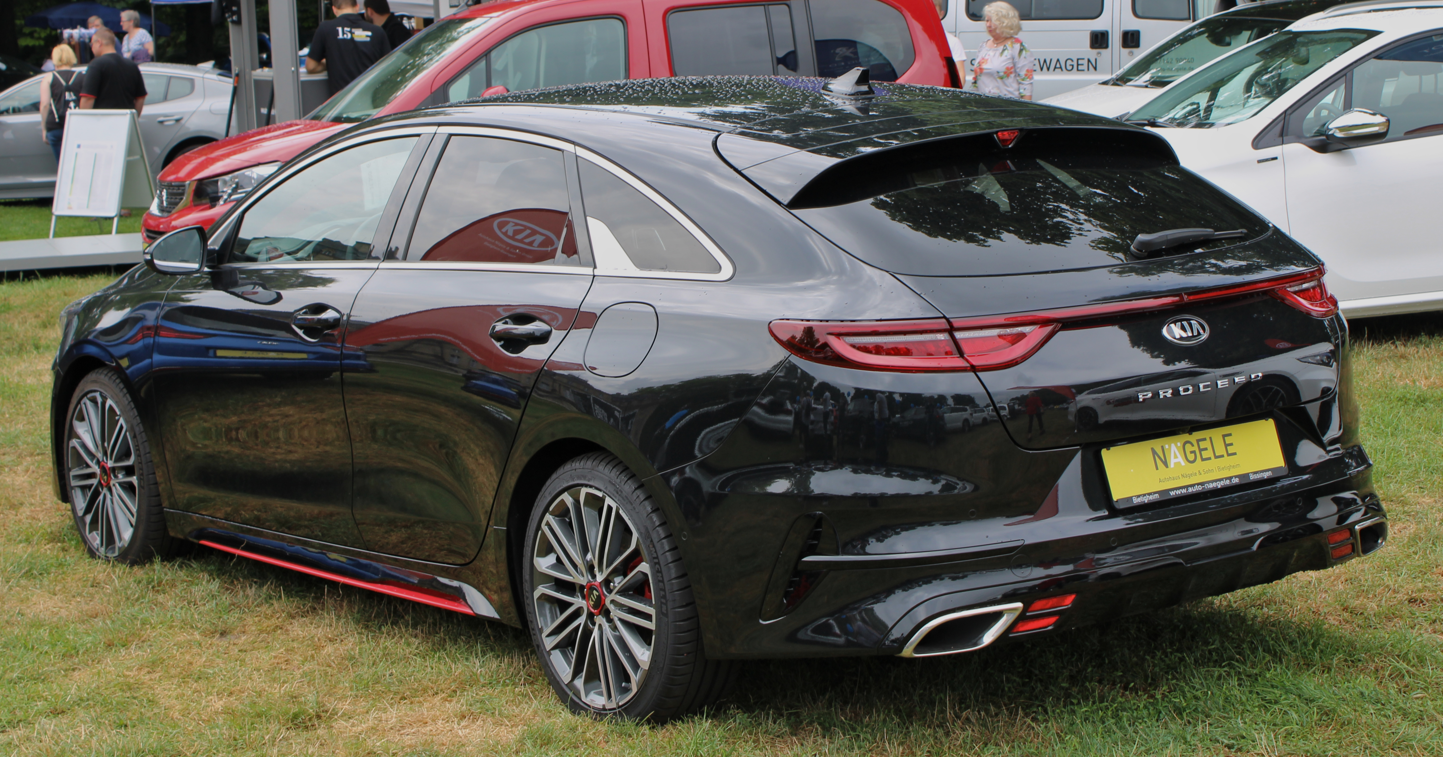 Kia Proceed at Schloss Monrepos 2019